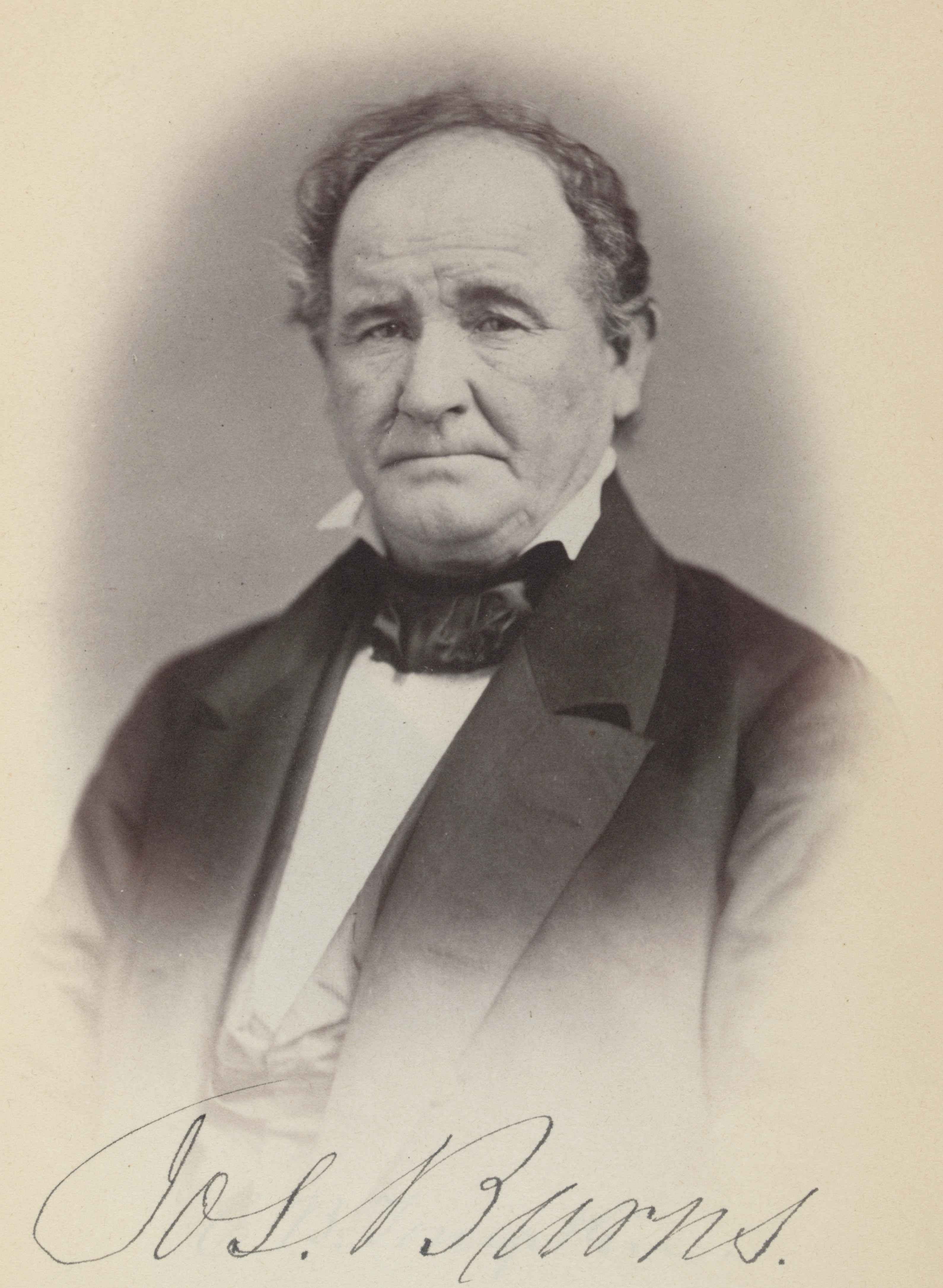 Joseph Burns, congressman from Coshocton, Ohio. From (1859) McClees' gallery of photographic portraits of the senators, representatives & delegates to the thirty-fifth Congress, Washington: McClees and Beck, p. 207 .